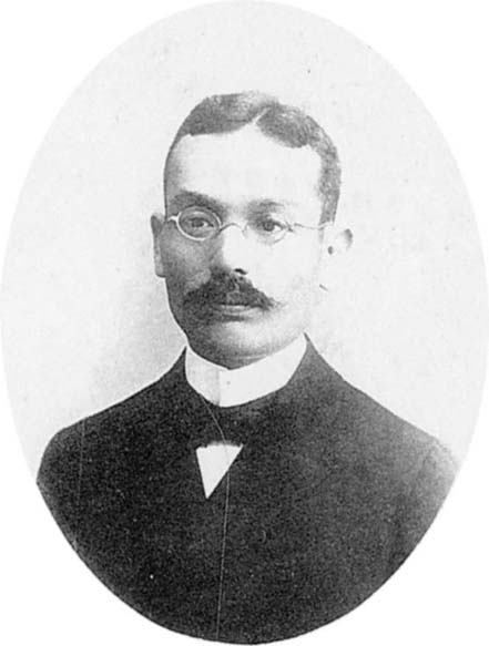 T. Inouye, Director of the College of Literature.